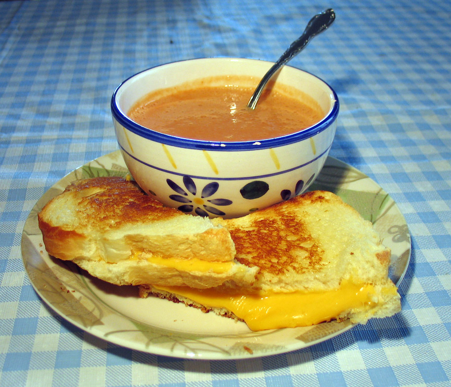 I took this picture. Grilled cheese sandwich with white bread, American cheese, and tomato soup.